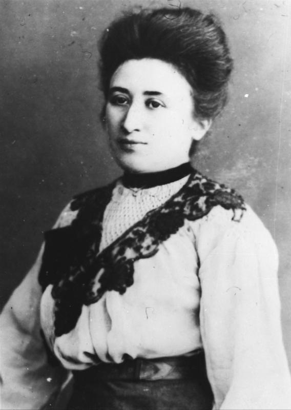 Luxemburg, Rosa: Führende Sozialdemokratin, Mitbegründerin der KPD, Polen